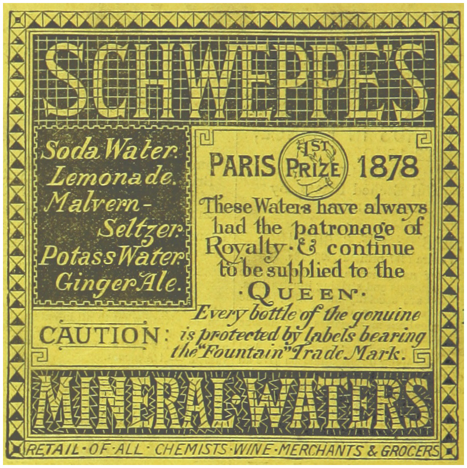 Advertisement: Schweppes Mineral-Waters, published 1883, trimmed and balanced.